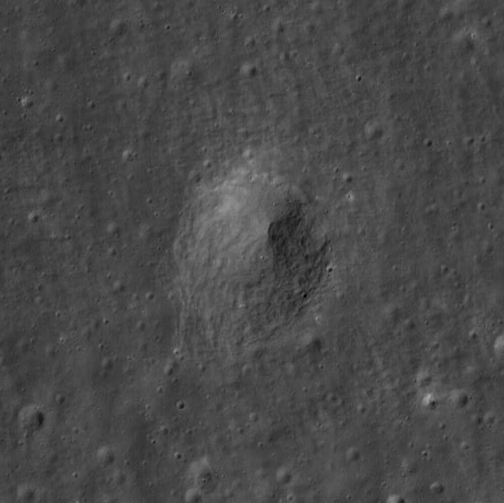 Spur crater, on the slope of Mons Hadley Delta, on the moon, visited by the astronauts of Apollo 15. This was station 7 of Apollo 15. The image was acquired at a high incidence angle (49.36) so the image was stretched vertically to produce a more accurate map-like representation. The image is approximately 250 m wide.